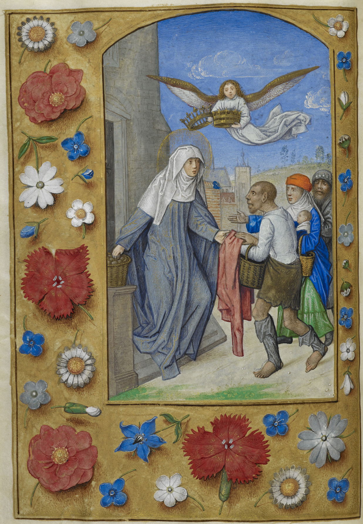 Memorial to St. Elizabeth of Thuringia. Borders of trompe l'oeil decoration with flowers.